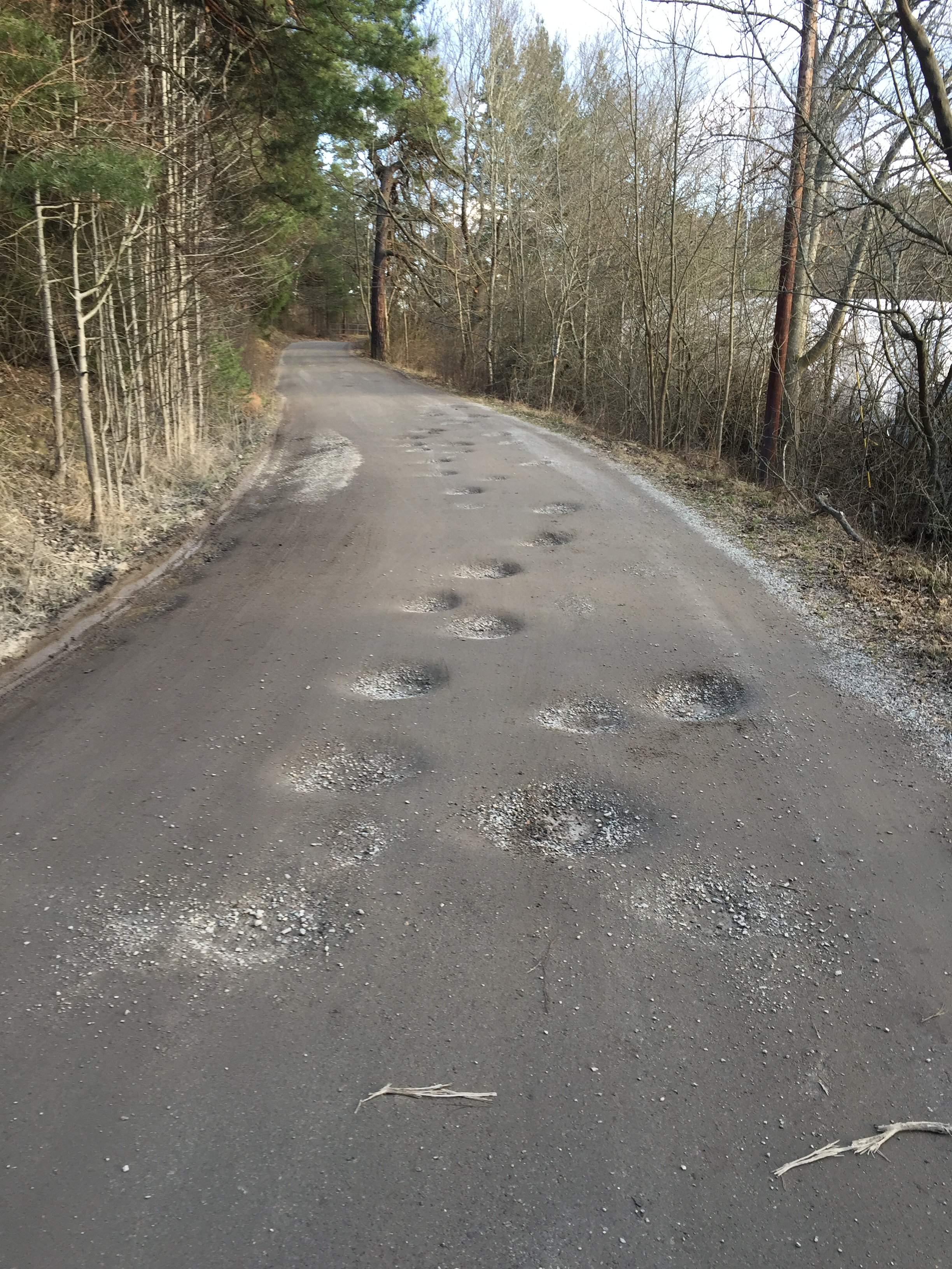 Pot holes in a dirt road in Sweden, 2016